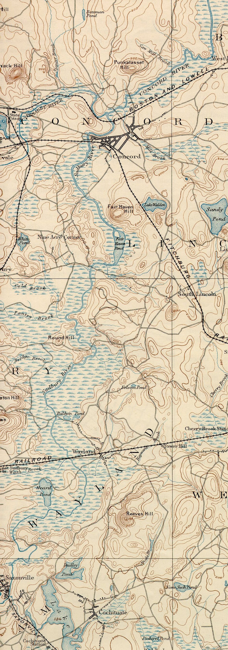 Almost-complete map of the Sudbury River, Massachusetts, USA. This image is cropped from its original source (see below) to remove extraneous terrain.